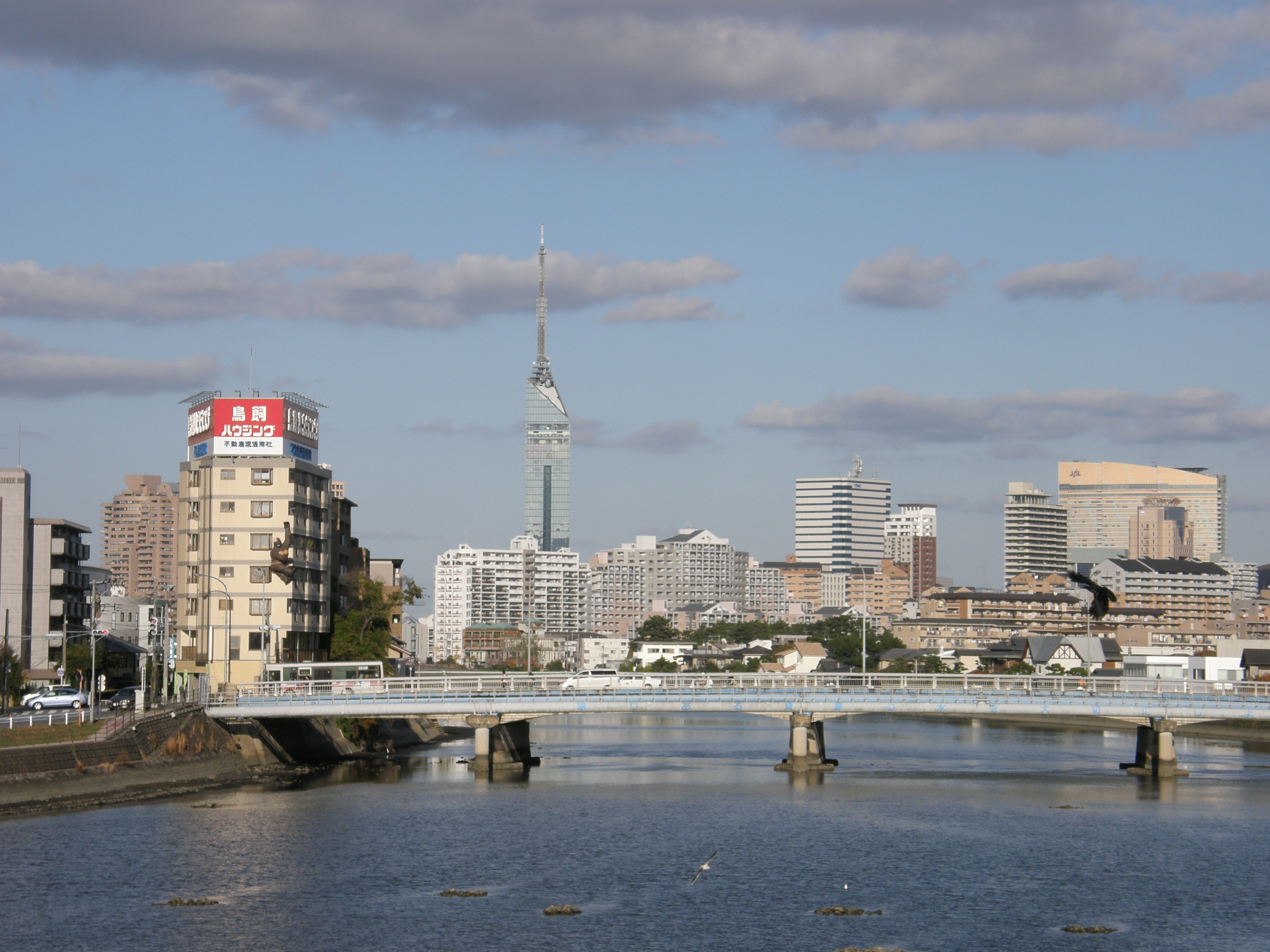 The Muromi River in Sawara-ku, Fukuoka. 撮影者は福岡タワーと室見橋の一番西側の橋脚を結んだ線上にいるため、Flickrの位置情報は誤り。実際は上流に掛かる築肥橋の上から撮影された可能性が高い。この情報を反映させました。--トトト (talk) 10:58, 23 March 2011 (UTC)